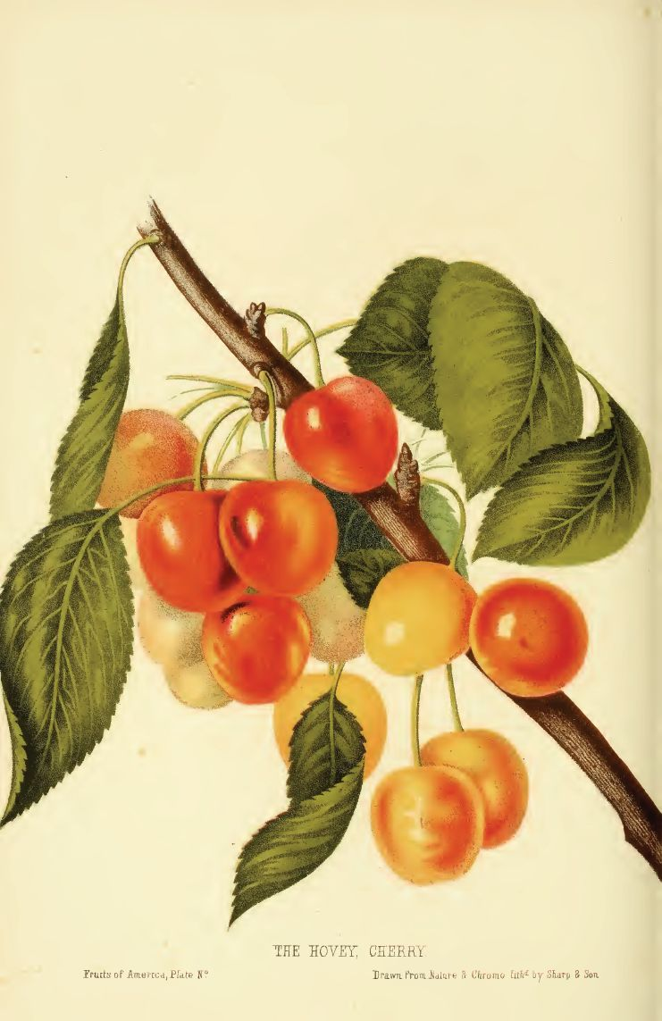 Plate of the "Hovey Cherry" included in Charles Mason Hovey's work "The Fruits of America"